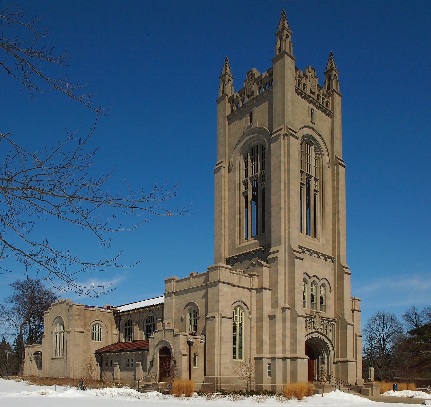 Skinner Memorial Chapel, Carleton College, Northfield, Minnesota, USA. Viewed from the southwest.